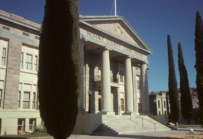 Mohave County Courthouse and Jail complex built in 1911 (jail, bldg. in backround) and 1915 (courthouse) — in Kingman, Mohave County, northwestern Arizona.